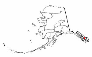 Adapted from Wikipedia's AK borough maps by Seth Ilys.